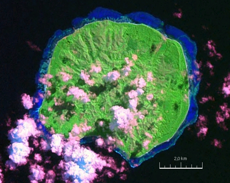 Geocover 2000 satellite image of Cicia (Thithia) Island, northern Lau Islands, Fiji